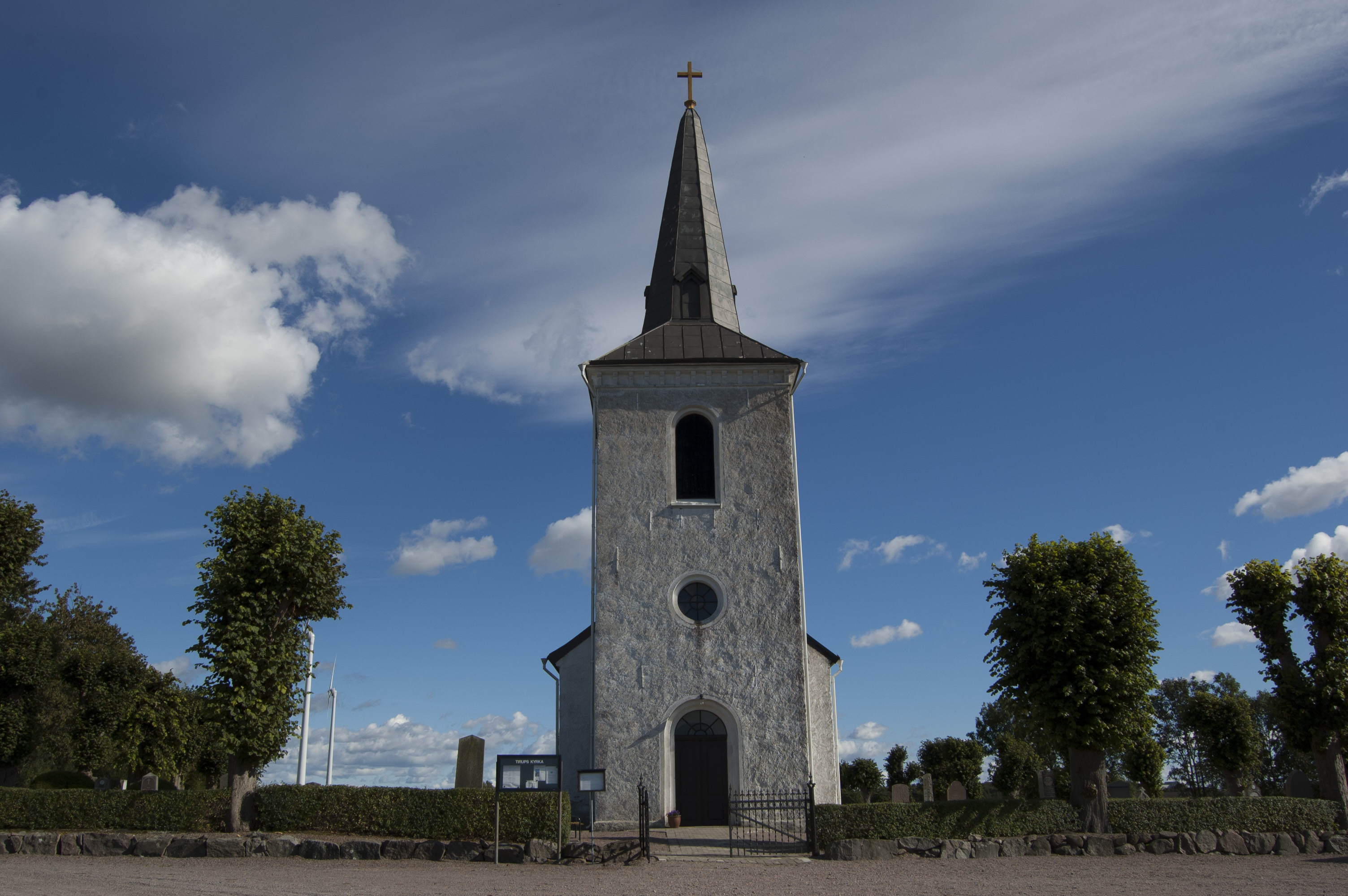 Kyrkan